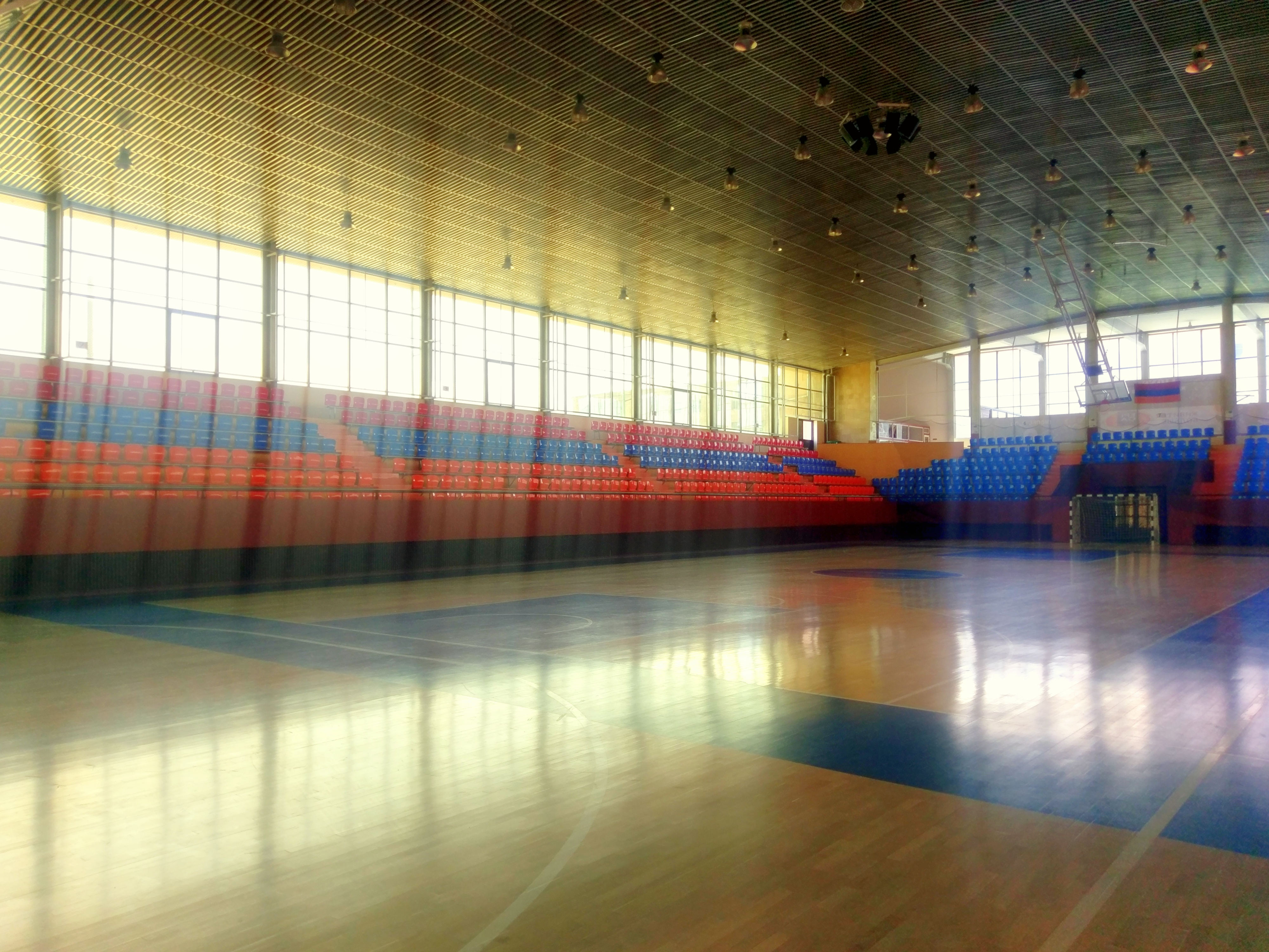 Mika Sports Arena, Yerevan, Armenia.